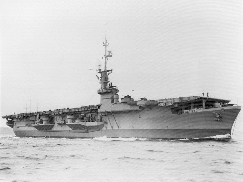 The U.S. Navy escort carrier USS Cape Gloucester (CVE-109) underway in 1945.